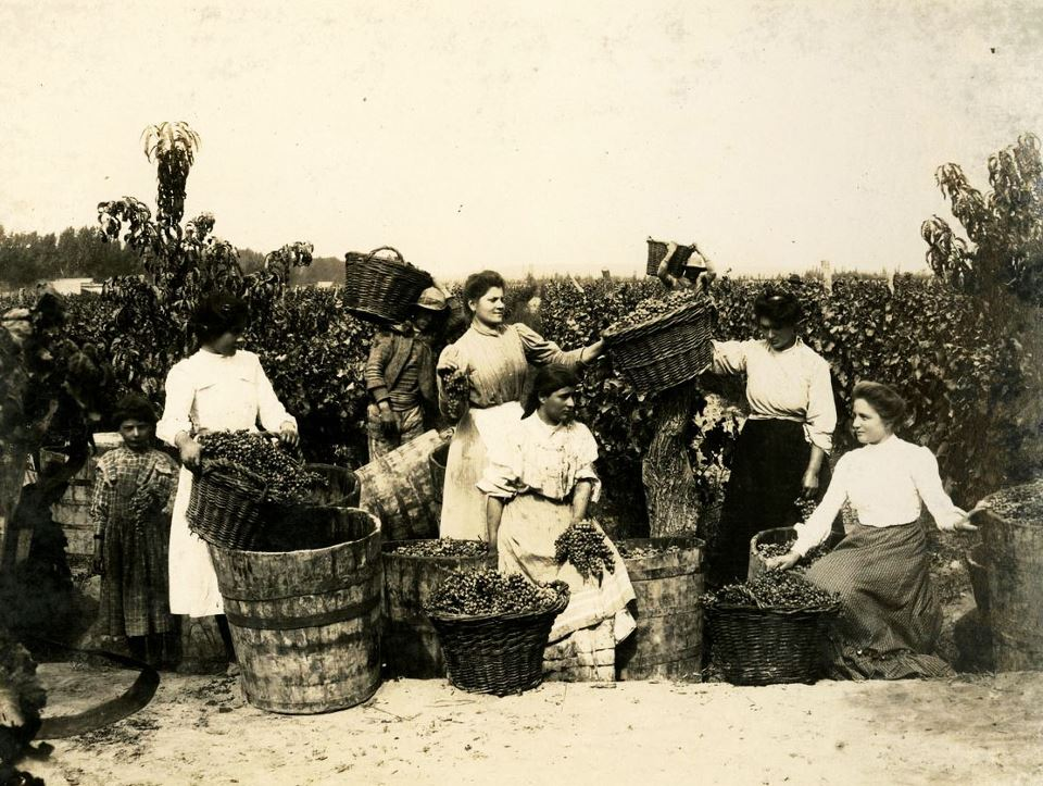 Female rural workers at a vineyard of Mendoza, Argentina.